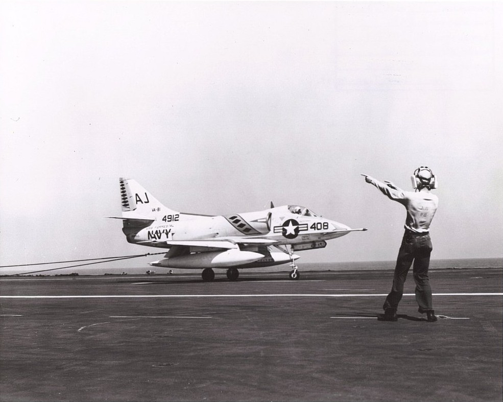 A Douglas A4D-2 Skyhawk (BuNo 144912) assigned to attack squadron VA-81 Crusaders of Carrier Air Group Eight (CVG-8) has just landed aboard the aircraft carrier USS Forrestal (CVA-59). The photo is dated 1 August 1964, but this may not be the actual date it was taken, as VA-81 flew the A4D-2 (A-4B) between 1960 and 1963 from the Forrestal before conversion to the A-4E.